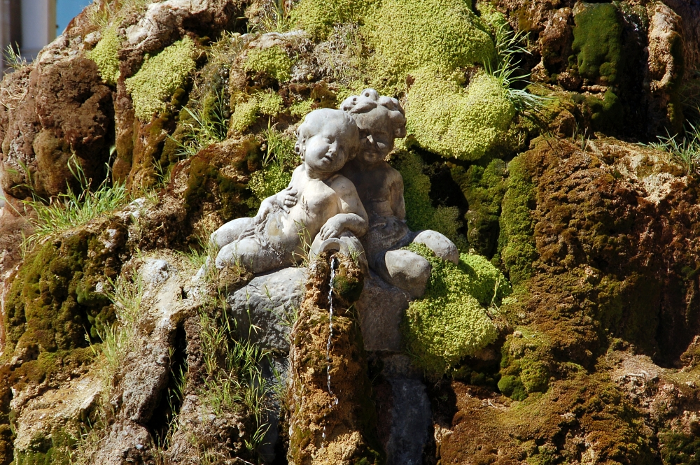 Fountain in front of the Opera, Montpellier, Languedoc-Roussillon, France